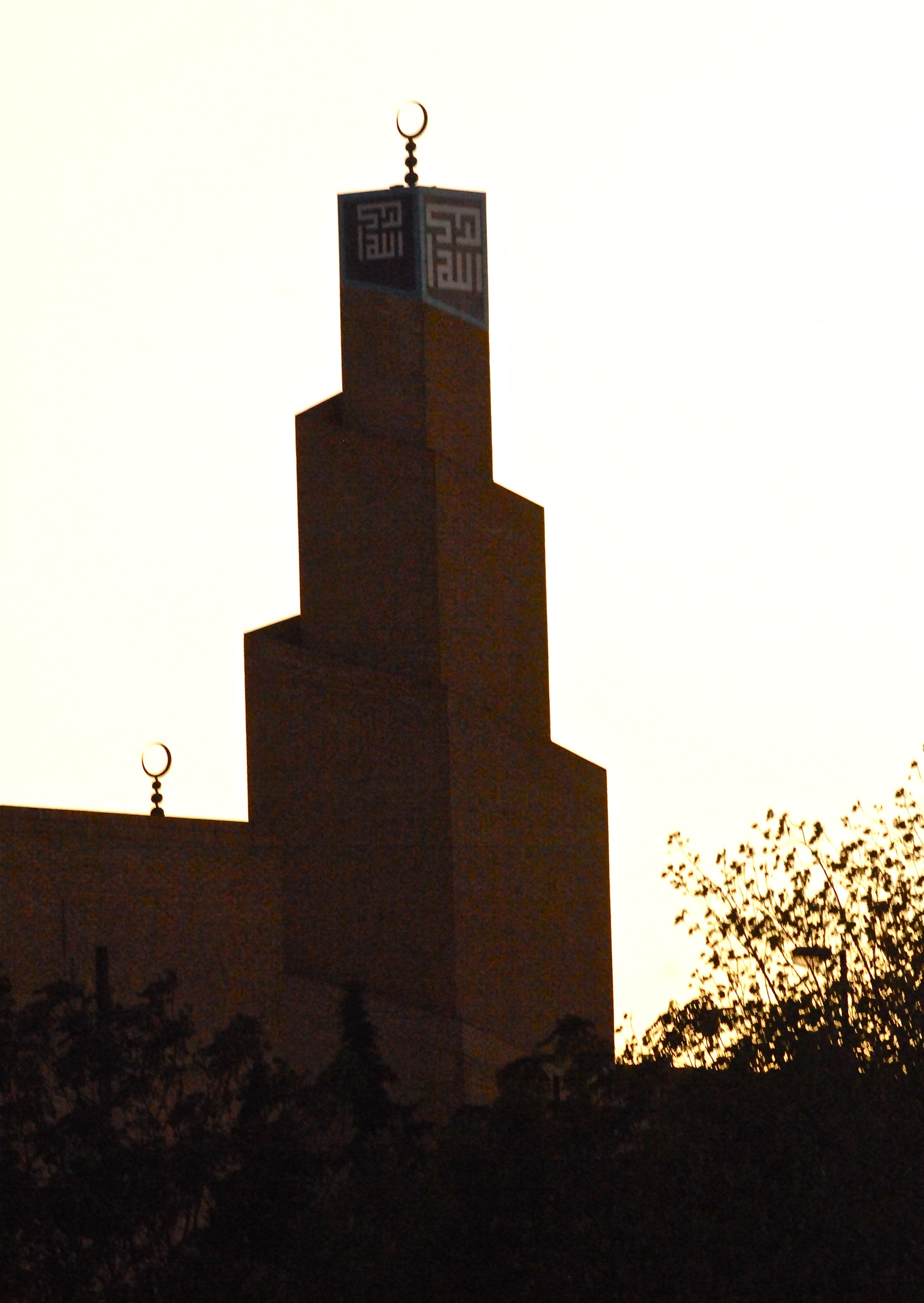 Lisbon, Portugal From Wikipedia, the free encyclopedia The Lisbon Mosque. Lisbon Mosque (Portuguese: Mesquita Central de Lisboa) was erected in 1988, to serve the Muslim community of the Portuguese capital, Lisbon. It was designed by António Maria Braga and João Paulo Conceição. The external features include a minaret and a dome. The mosque contains reception halls, a prayer hall and an auditorium.